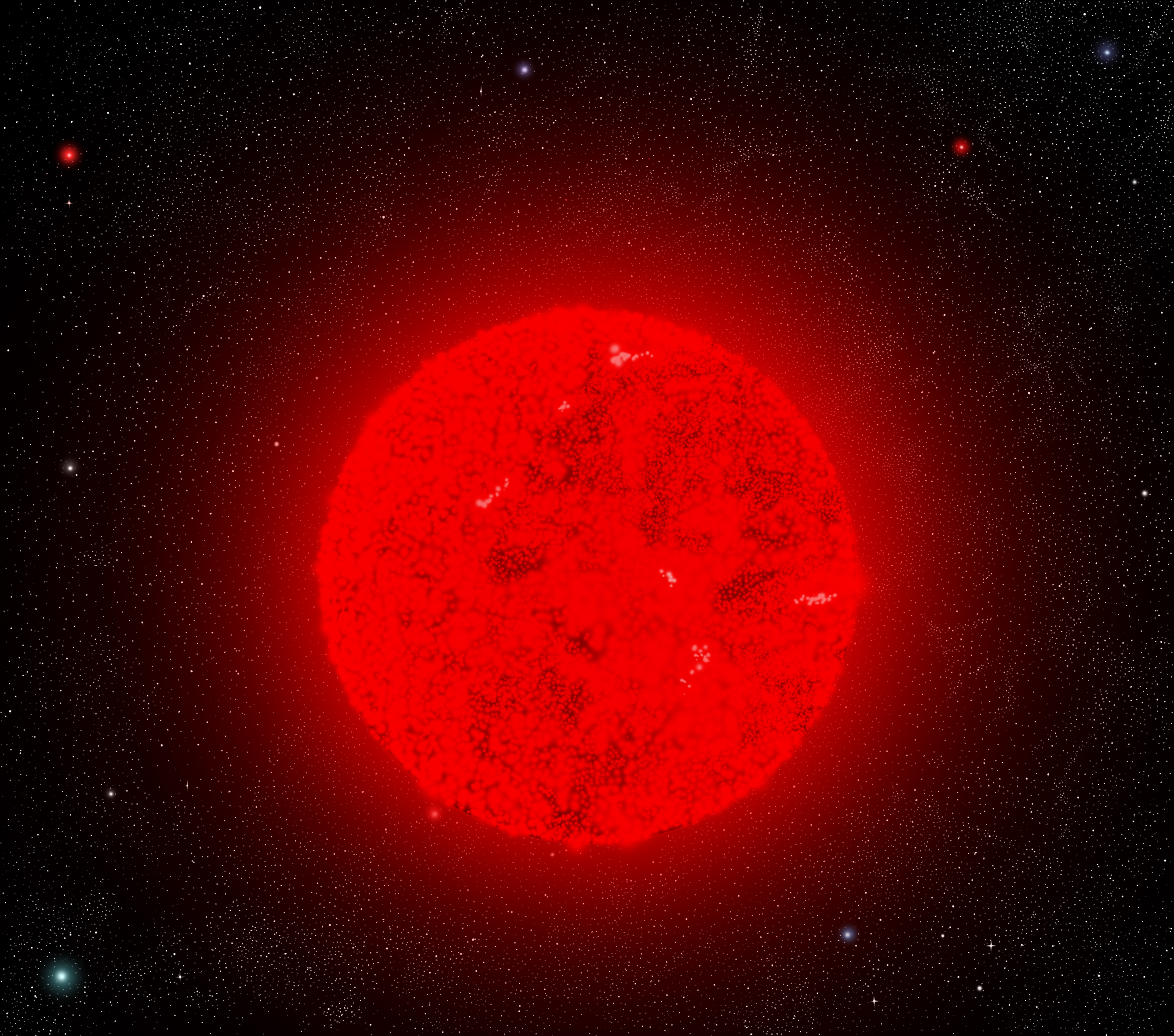 an illustration of the Red Supergiant Mu Cephei in the Cepheus constellation.